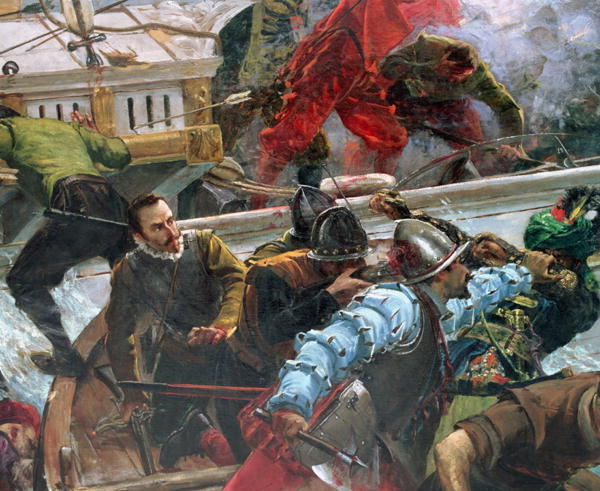 Detail of The Naval Battle of Lepanto of 1571 waged by Don John of Austria. Don Juan of Austria in battle, at the bow of the ship, painted by Filipino painter Juan de Luna y Novicio.